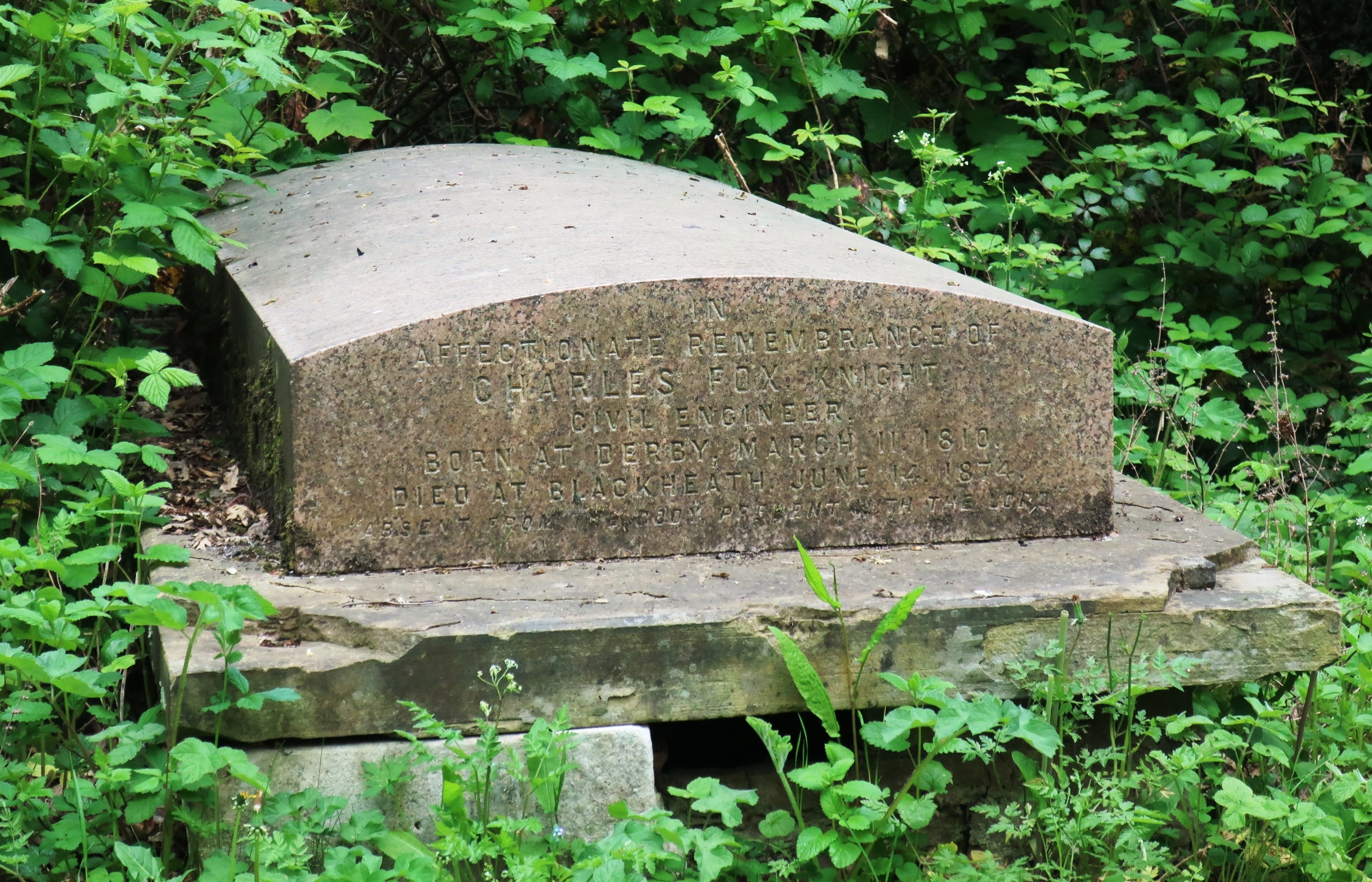 Grave of Sir Charles Fox (1810-1874), civil engineer, in Nunhead Cemetery, London SE15